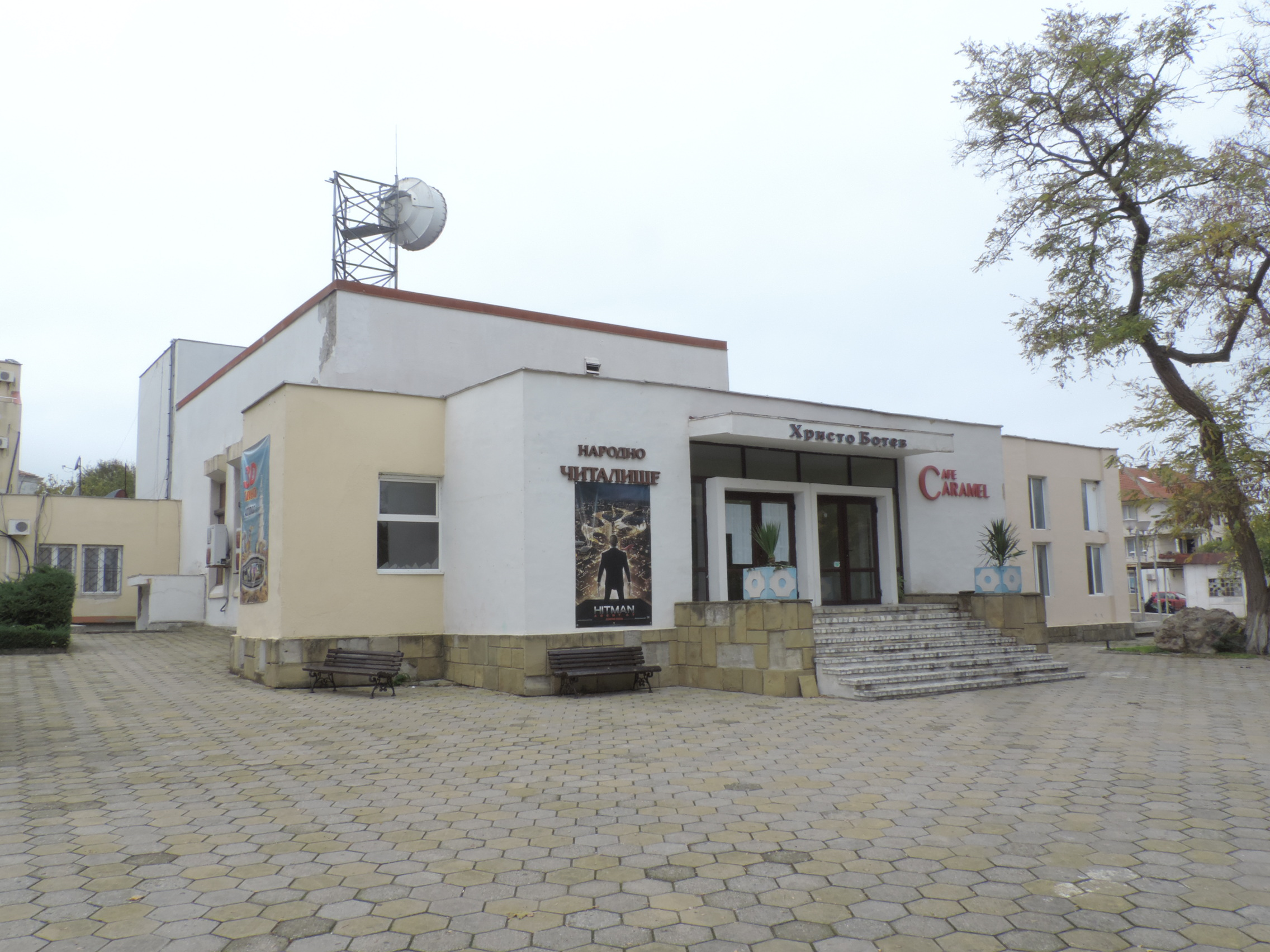 "Hristo Botev" Chitalishte (community and cultural centre), Ahtopol